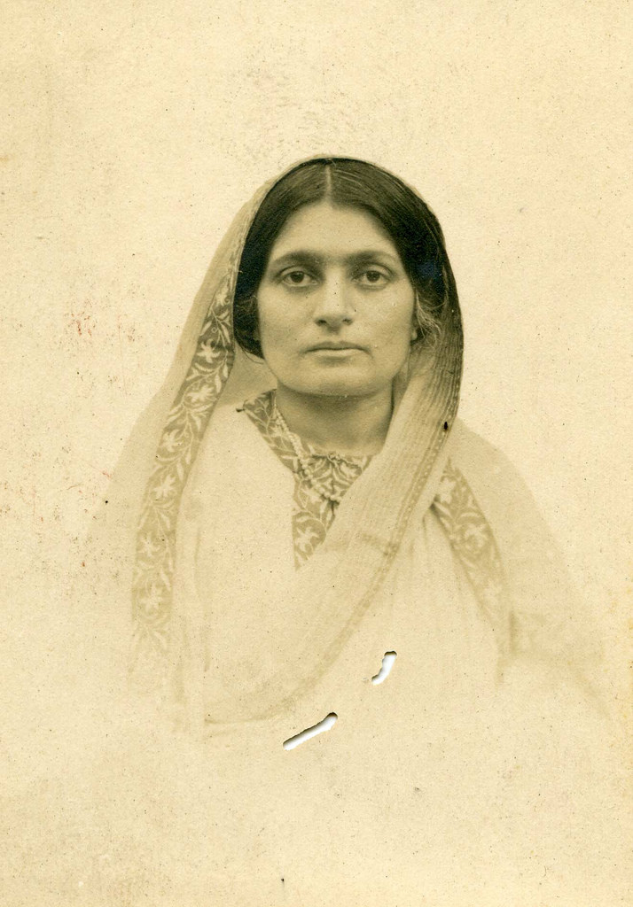 Portrait of Indian social worker Amina Hydari.